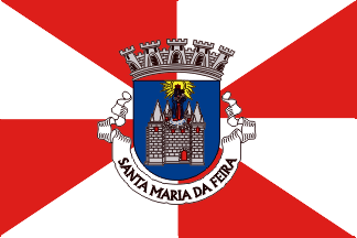 Flag of Santa Maria da Feira, Portugal.